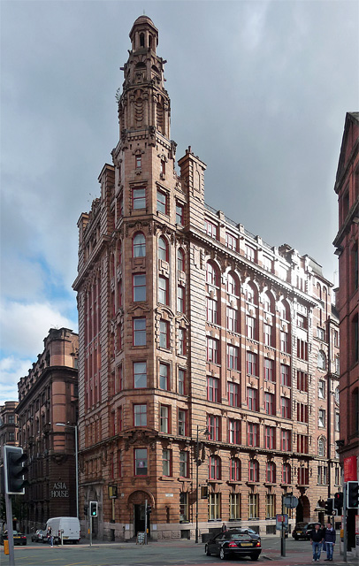 67 Whitworth Street, known as Lancaster House, seen from the north. Formerly a warehouse, now grade II* listed